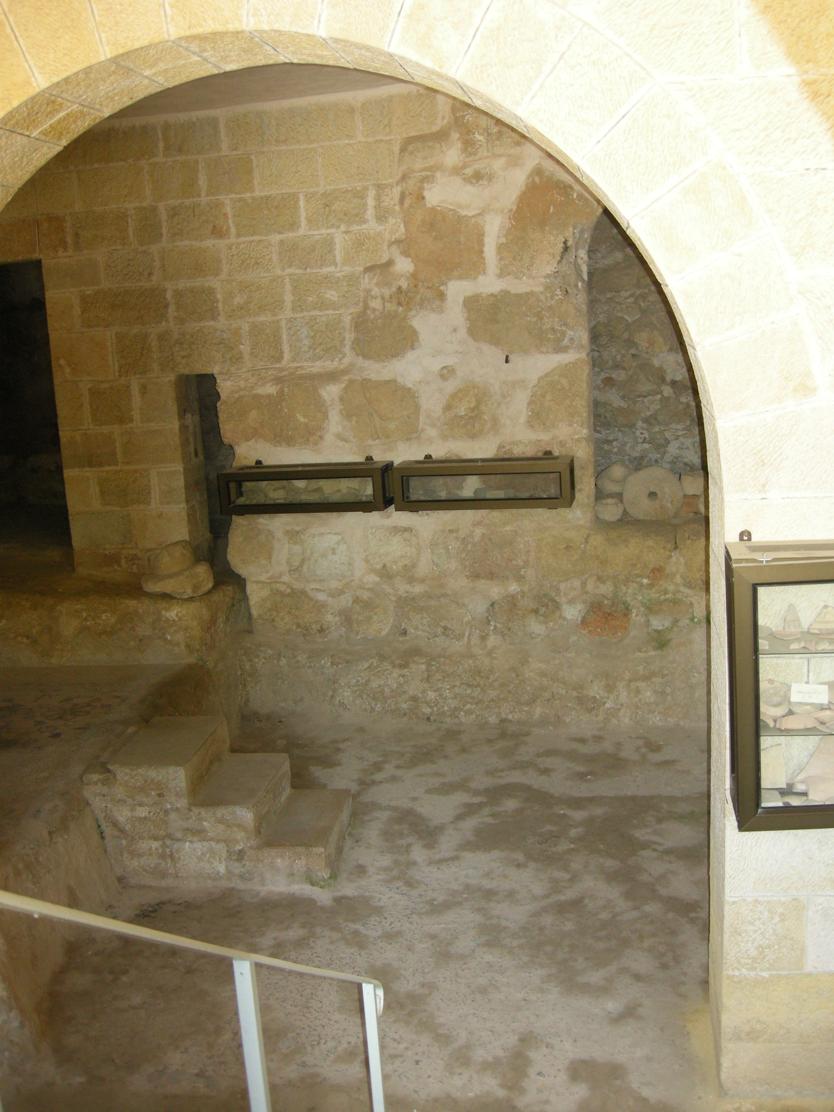 St. John the Baptist in the Mountains